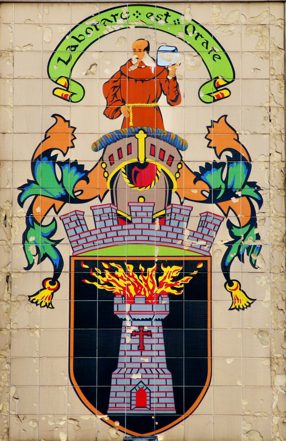 Coatbridge coat of arms on side of a building in Whifflet, Coatbridge